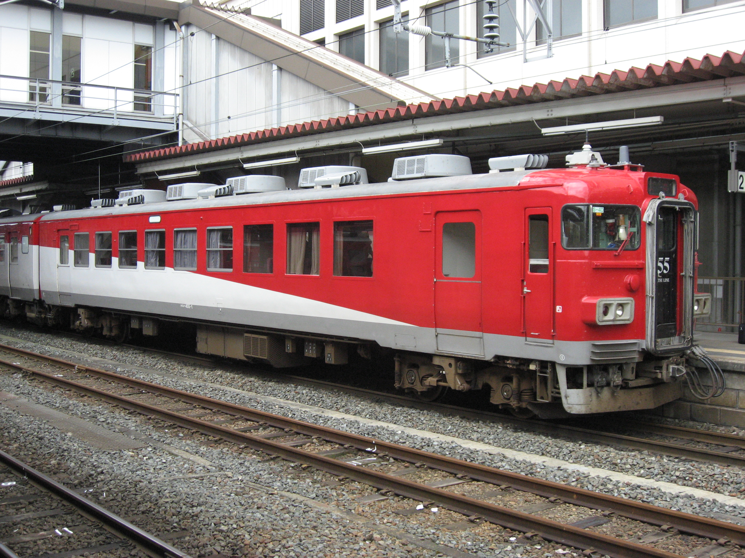 JR East 455 series EMU car KuRoHa 455-1 in 3-car set S40 at Koriyama Station